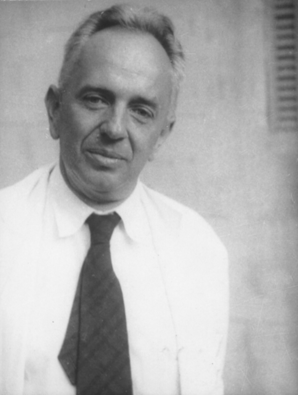 Dobzhansky no Brasil em 1943